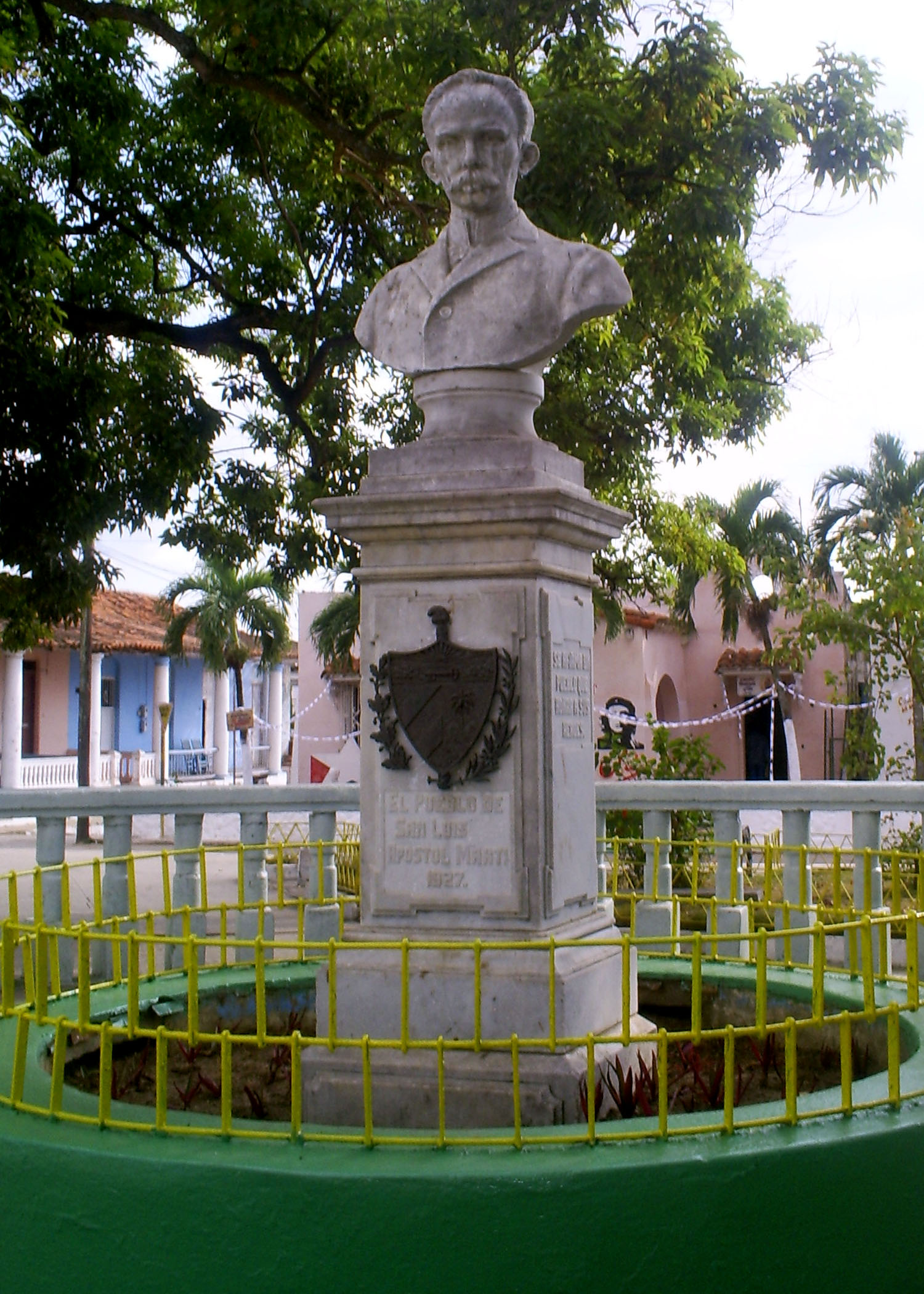 National Heroe of Cuban Republic, José Martí, in San Luis, Pinar del Río, Cuba.